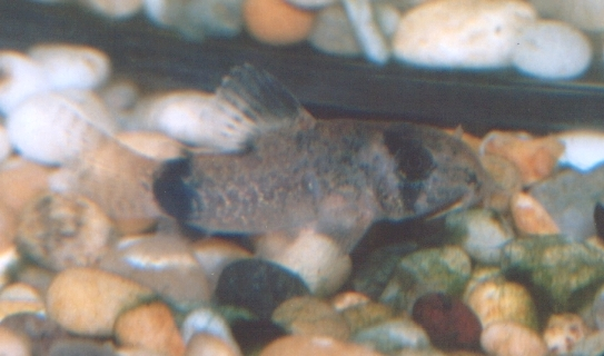 Author: User:Calilasseia Photograph of 2nd generation individual from my breeding stock, taken August 2003. Original image on print taken from 35mm negative.